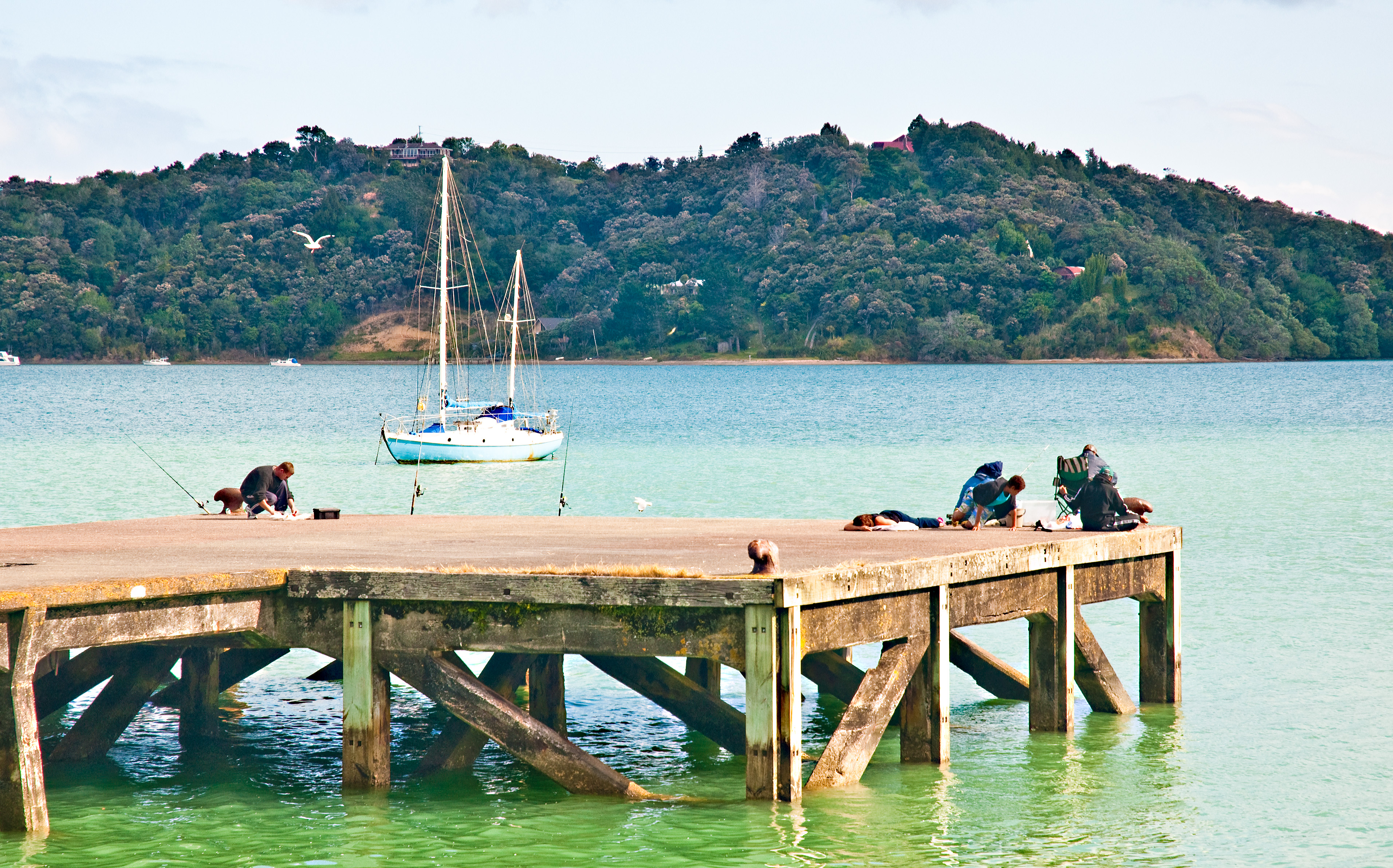 Parua Bay wharf, Northland, New Zealand, 4th. Dec. 2010